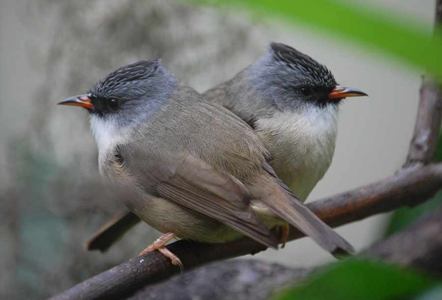 Black-chinned Yuhina (Yuhina nigrimenta)